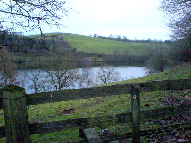 Llyn Du The stile is at the foot of Broniarth Hill; the road down to Meifod on the far shore.